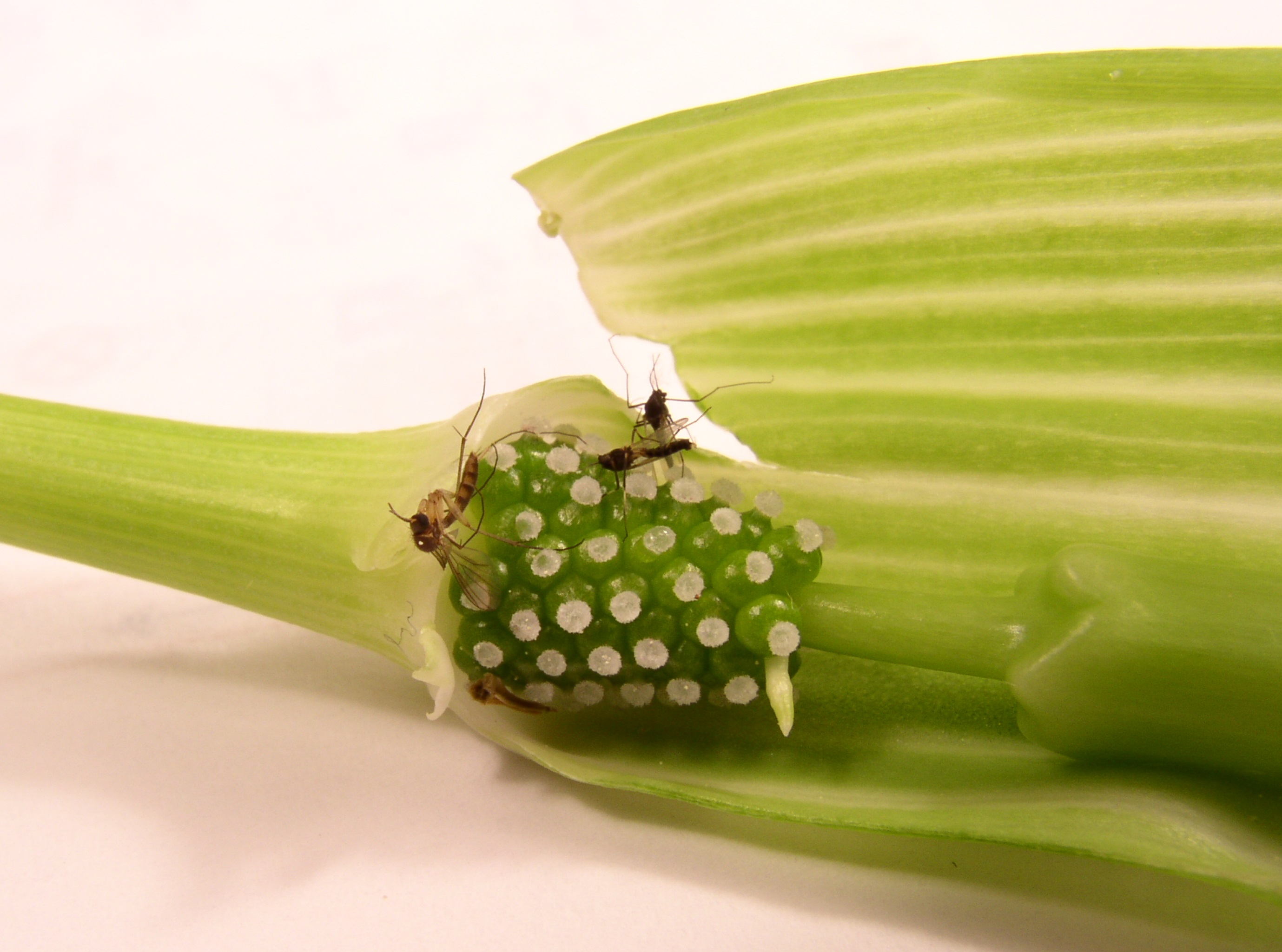 Jack-in the-pulpit (Arisaema) female inflorescence with trapped insects, tribe Exechiini (3 mm) and subfamily Orthocladiinae (2 mm). Pennypack Conservation Trust, Montgomery County, Pennsylvania, USA.